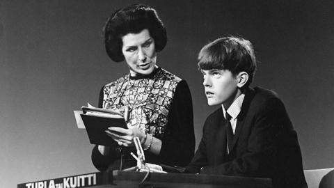 Finnish Tupla tai kuitti (1958–1988) quiz program presenter Kirsti Rautiainen (Pajari) and competitor Markku Kivekäs in 1965 (which later became known Finland’s Donald Duck magazine editor.